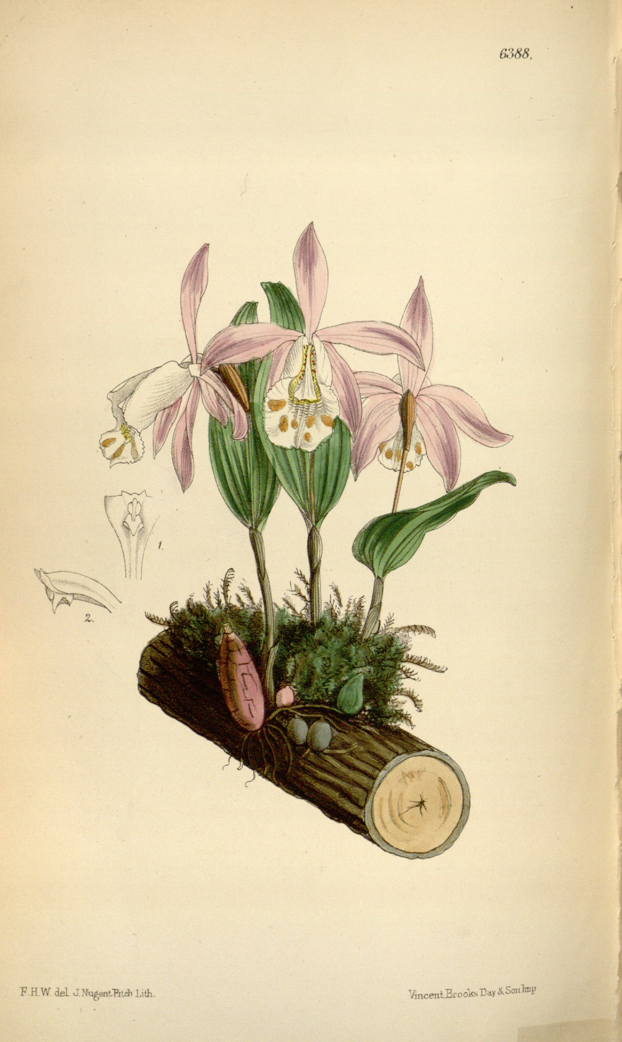 Illustration of Pleione hookeriana (as Coelogyne (Pleione) hookeriana)